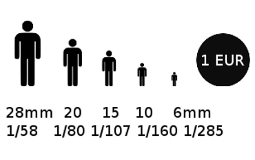 Scale comparison of tabletop / wargames miniatures scales and a 1 EUR coin. Derivative of File:Aiga_toiletsq_men.svg by AIGA (PD), original uploaded by User:Iceburn tuga